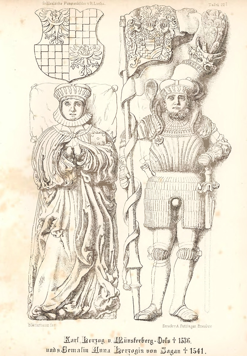 Duke Charles of Münsterberg-Oels Herzog Karl von Münsterberg-Oels